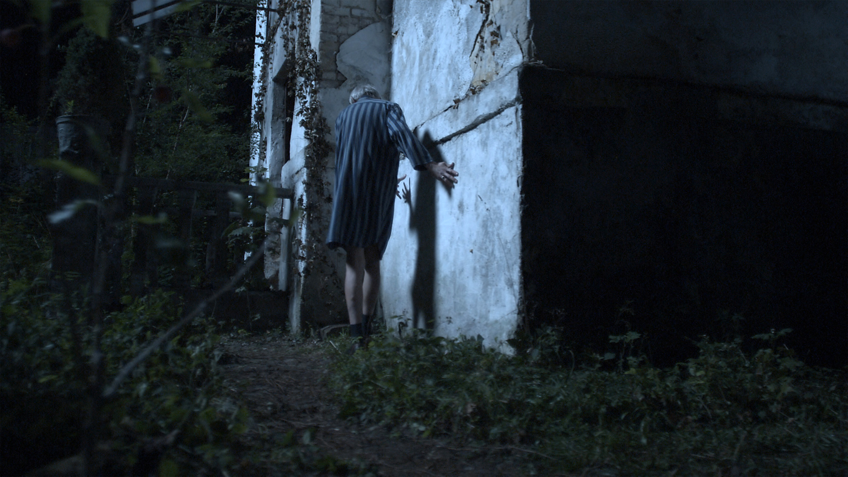 Delirium (film) still